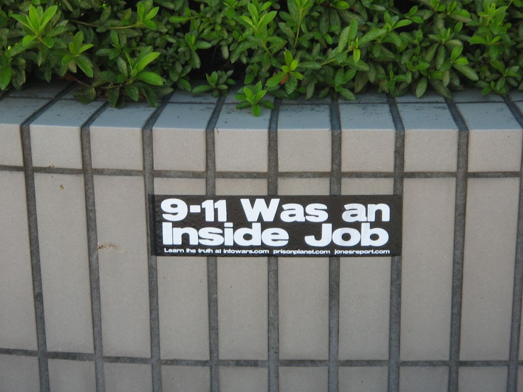 Sticker 9/11 Was an Inside Job